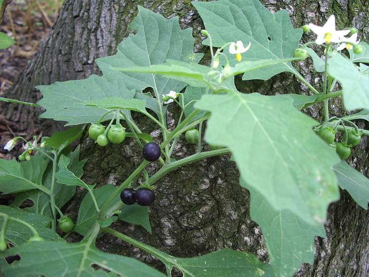 A branch of the Black Nightshade (Solanum nigrum) with leaves, blossoms, unripe (green) and ripe (black) fruits